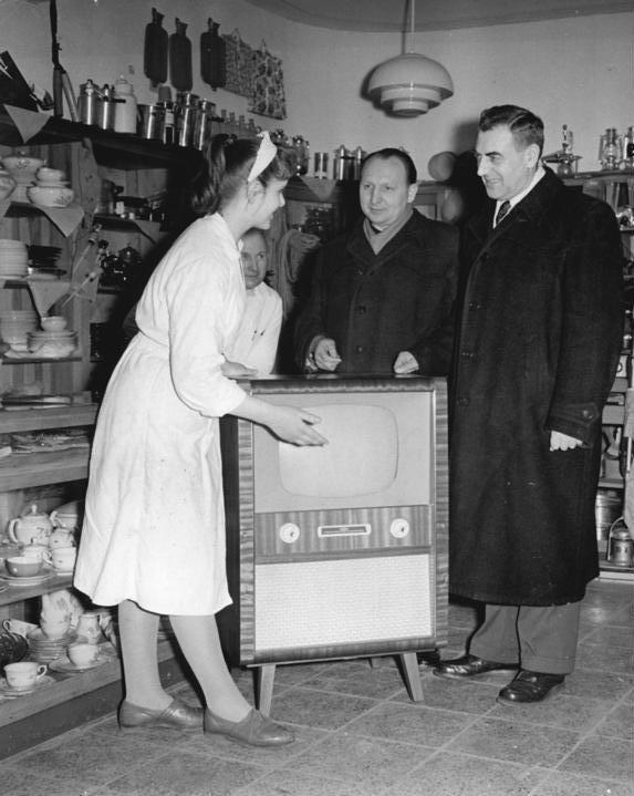 Members of the administration from District Wismar help collective farmers on a daily basis. More than half of the collective's full members in District Wismar support the collective farmers on a daily basis. According to the plan for the national economic for this year, the district will exceed expectations by 365 t of pork and beef, 18 t in poultry, 2,200 t milk and 1.6m eggs. Our picture shows: Workers of the administration support all 29 communities in the district, who each form a economic entity after becoming an agricultiral collective, to improve the lifes of the village population. Here District Councillor Hans Lübbert (r.) advises Lübow mayor Alfred Odebrecht and saleswoman Ulla Parchow over the range of goods in the village. The numbre of television sets delivered to the settlement raises constantly, but still not meets demands, says Ulla Parchow.